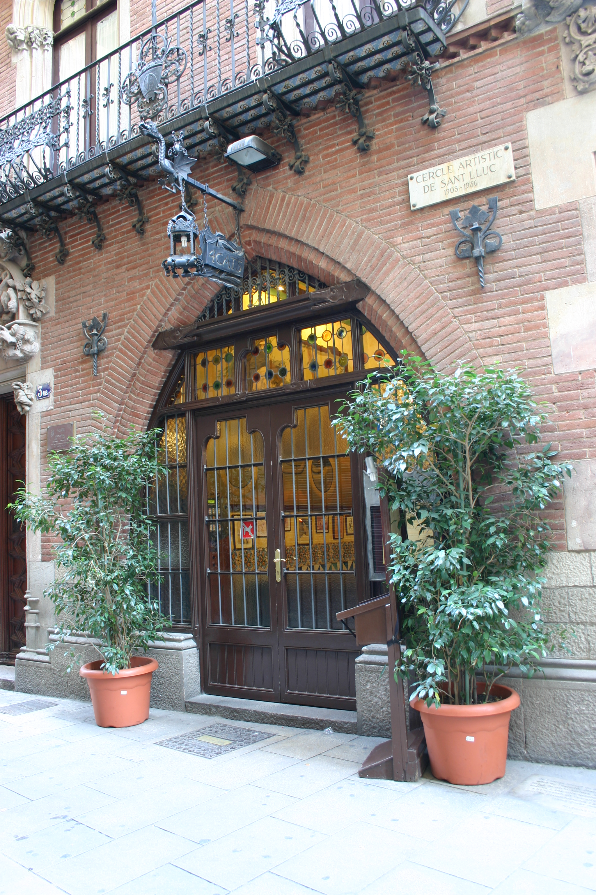 Casa Martí. Els Quatre Gats Author: User:Yearofthedragon Note: Architect:Josep Puig i Cadafalch City:Barcelona